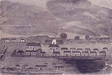 Early Sydney - 1796. pen and wash drawing; 15.1 x 22.6 cm